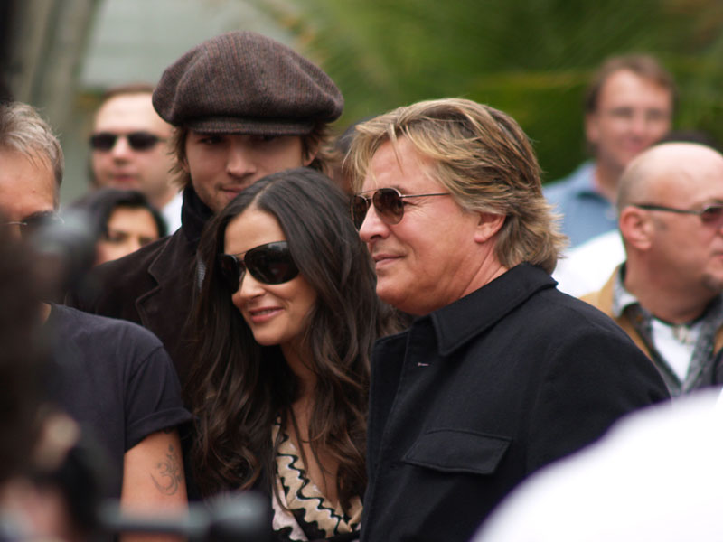 Don Johnson, Demi Moore and Ashton Kutcher watch Bruce Willis get his star on The Hollywood walk of Fame.